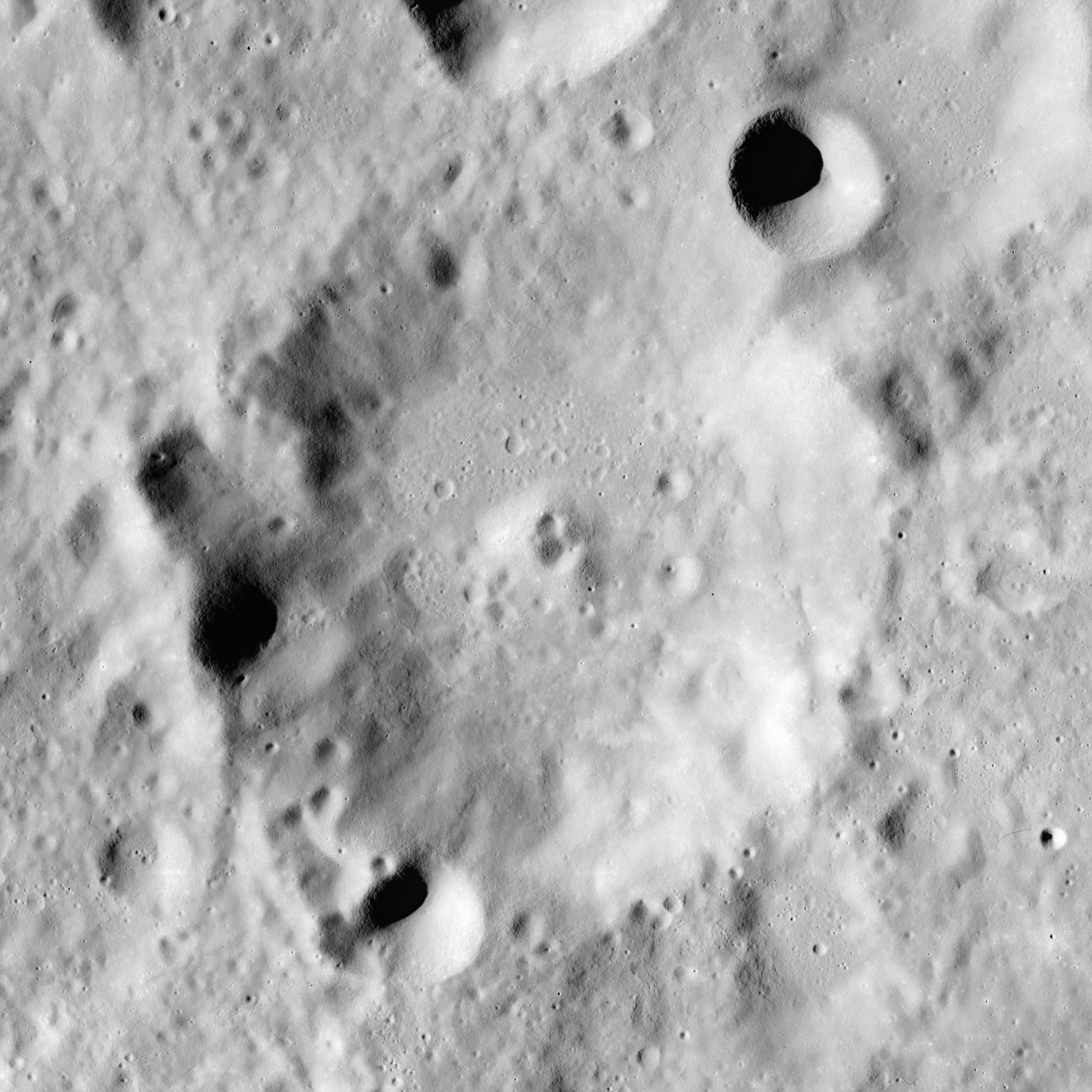 Dufay X crater, northwest of Dufay crater, on the far side of the moon. From Revolution 3 of the Apollo 16 mission.